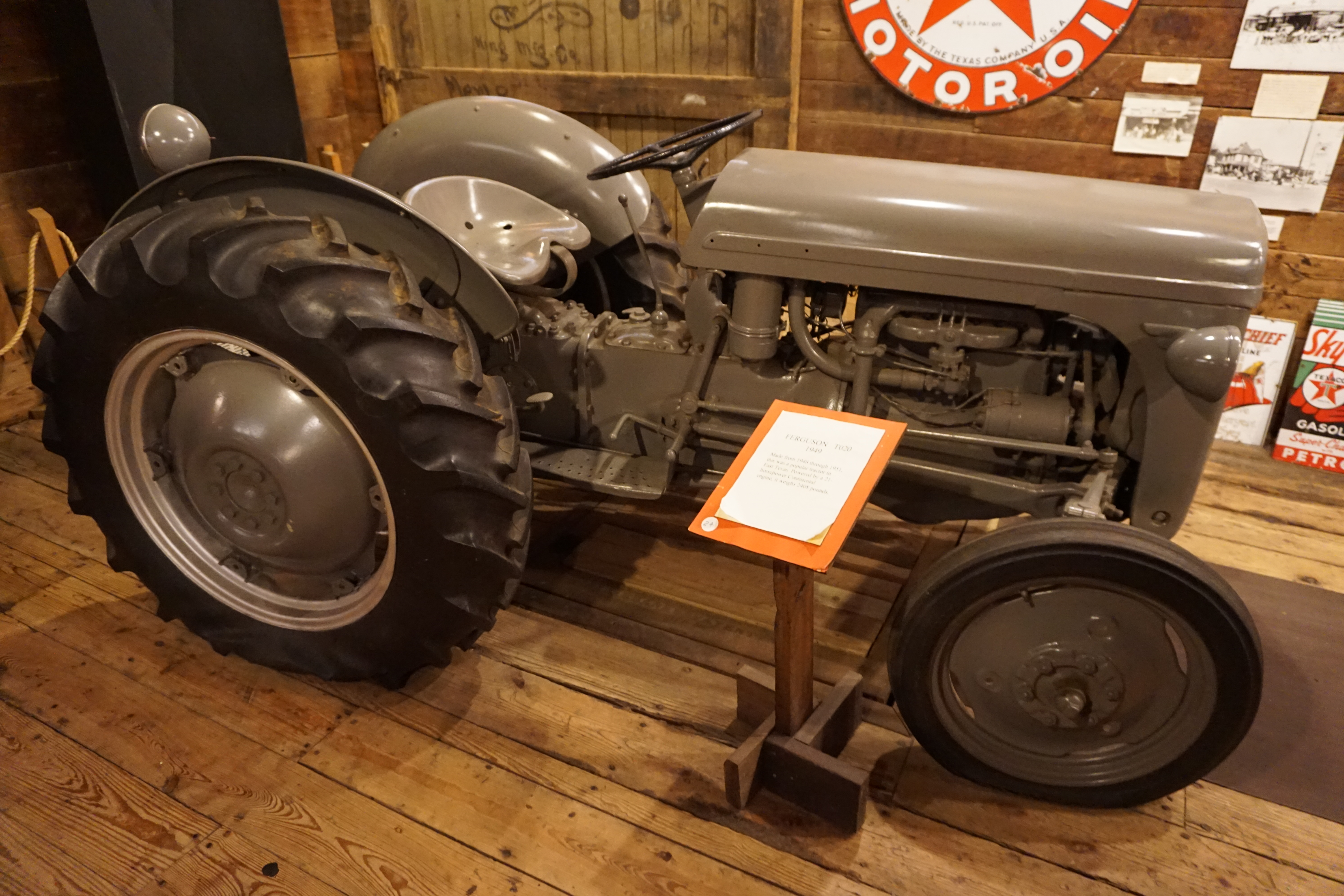 A 1949 Ferguson TO20 tractor on display at the Northeast Texas Rural Heritage Center and Museum in Pittsburg, Texas (United States).